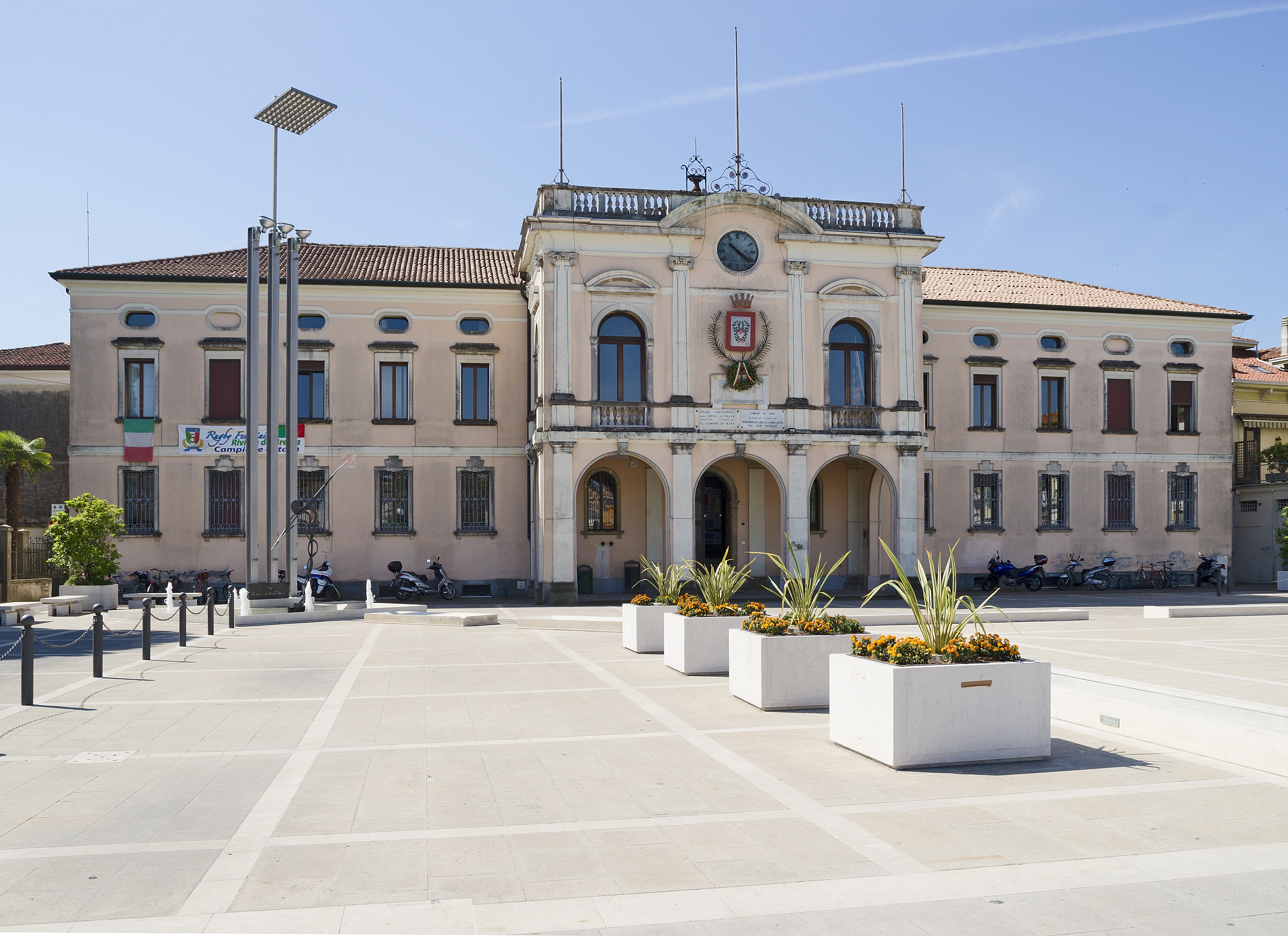 The town hall of Mira. Unknown architect. Construction completed in the first half of the nineteenth century.